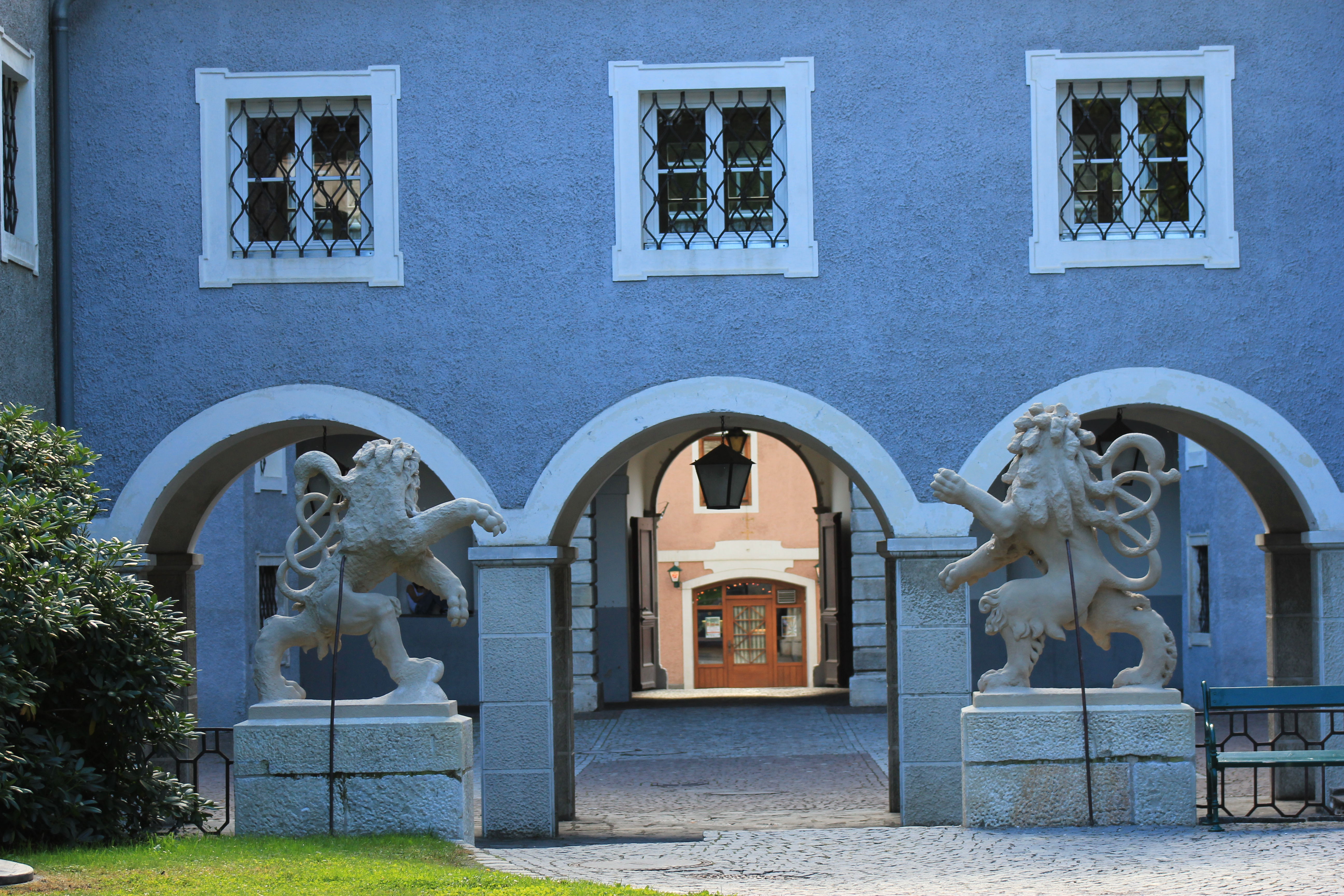 Lodron castle in Gmünd